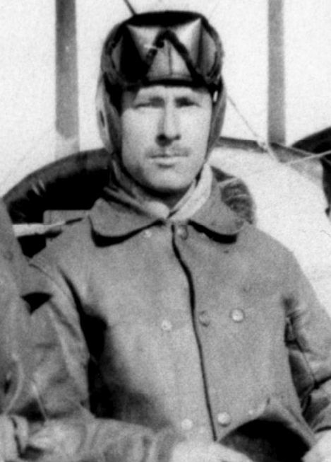 At field headquarters near Casas Grandes, Mexico, April 1916, airmen Lts. Herbert A. Dargue (left), and Edgar S. Gorrell (right) pose with Signal Corps No. 43.